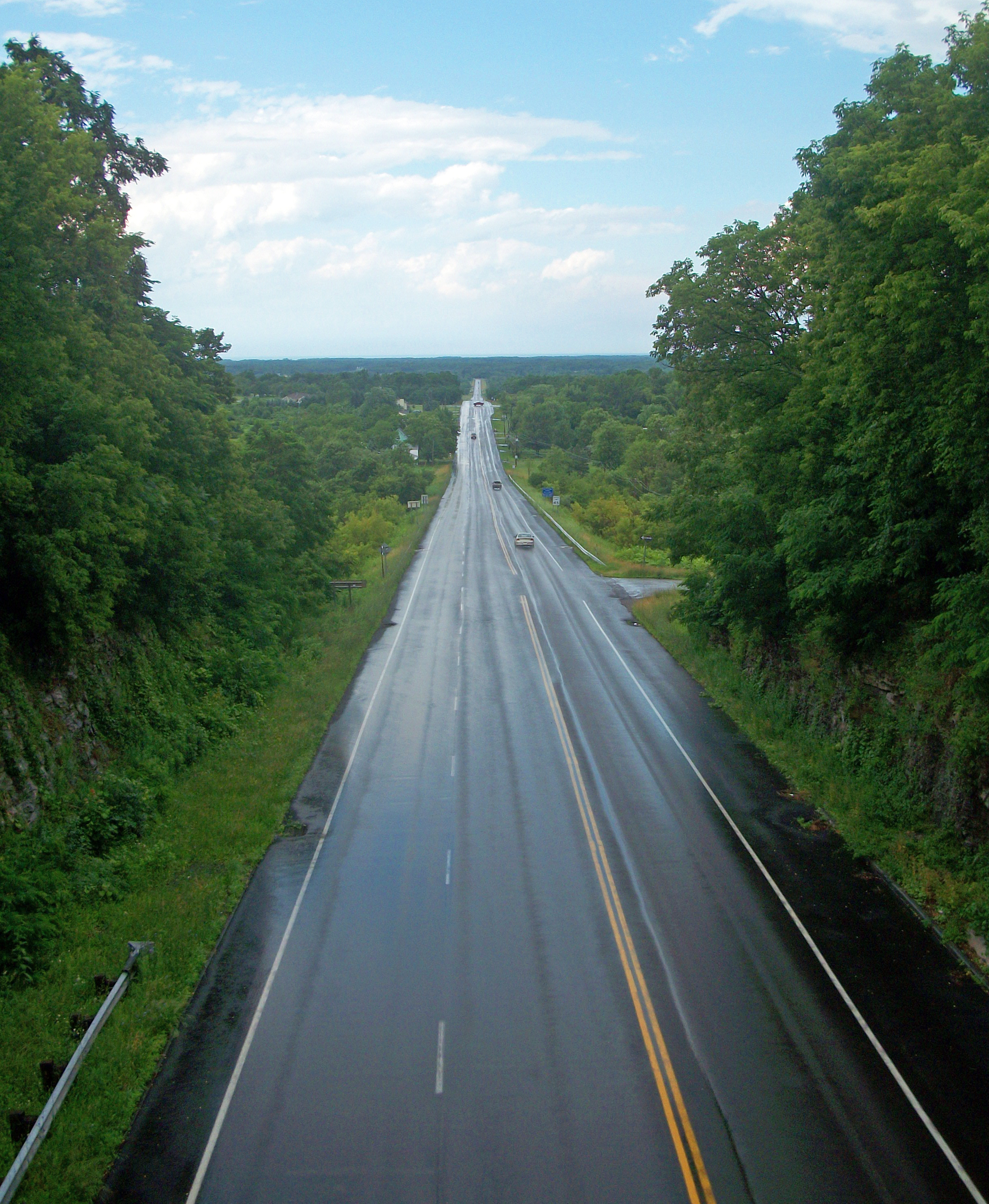 View from Upper Mountain Road overpass in Pekin, NY, along NY 429 north towards Lake Ontario